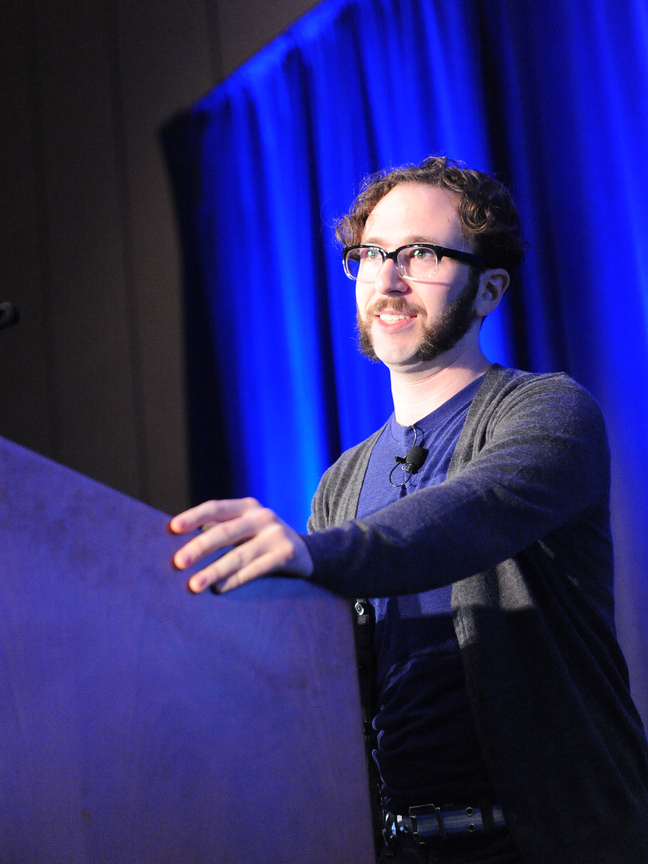 Darren Korb at the 2012 Game Developers Conference giving the presentation Build That Wall: Creating the Audio for Bastion